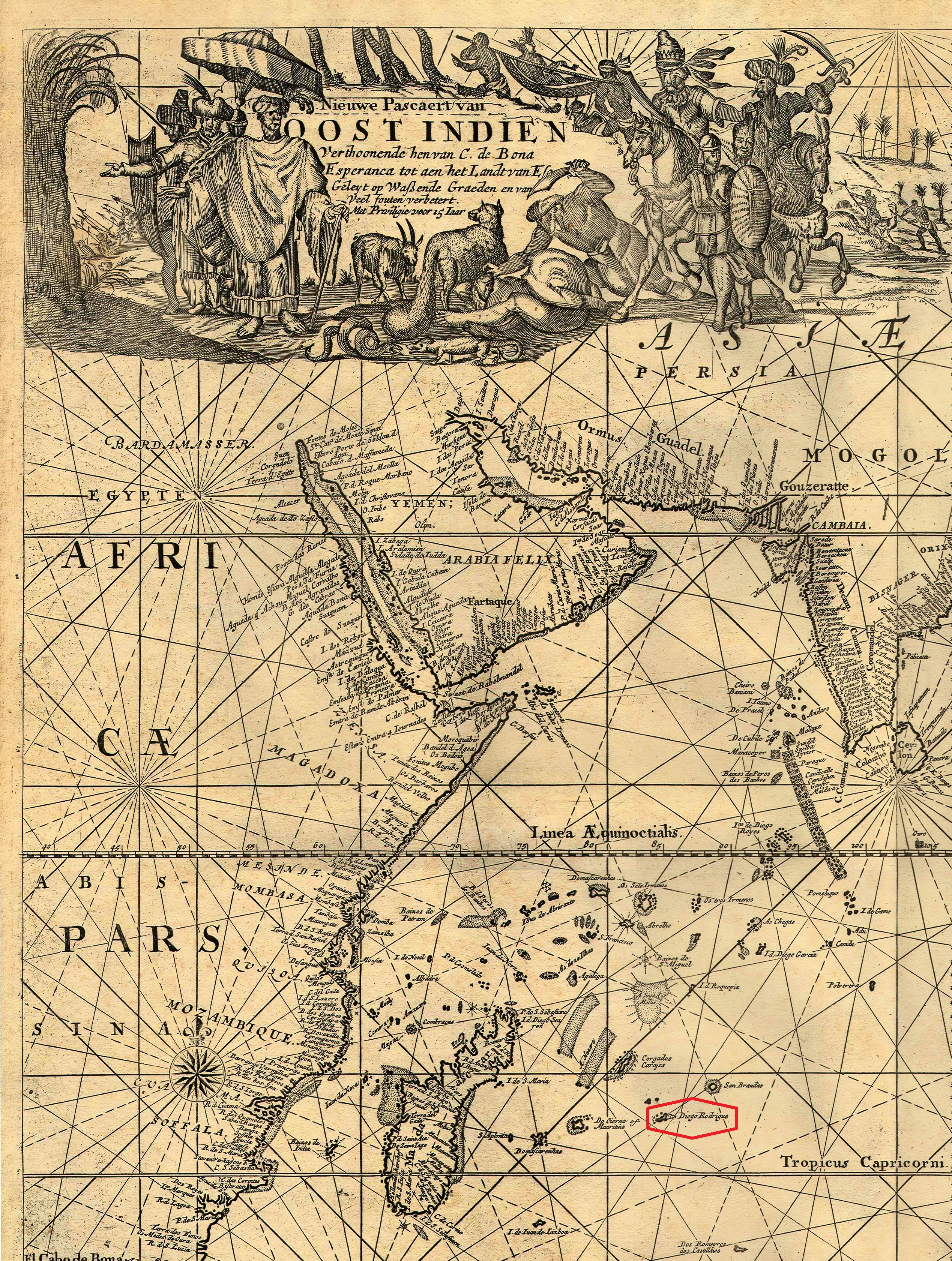 Map 1680 of the Indian Ocean